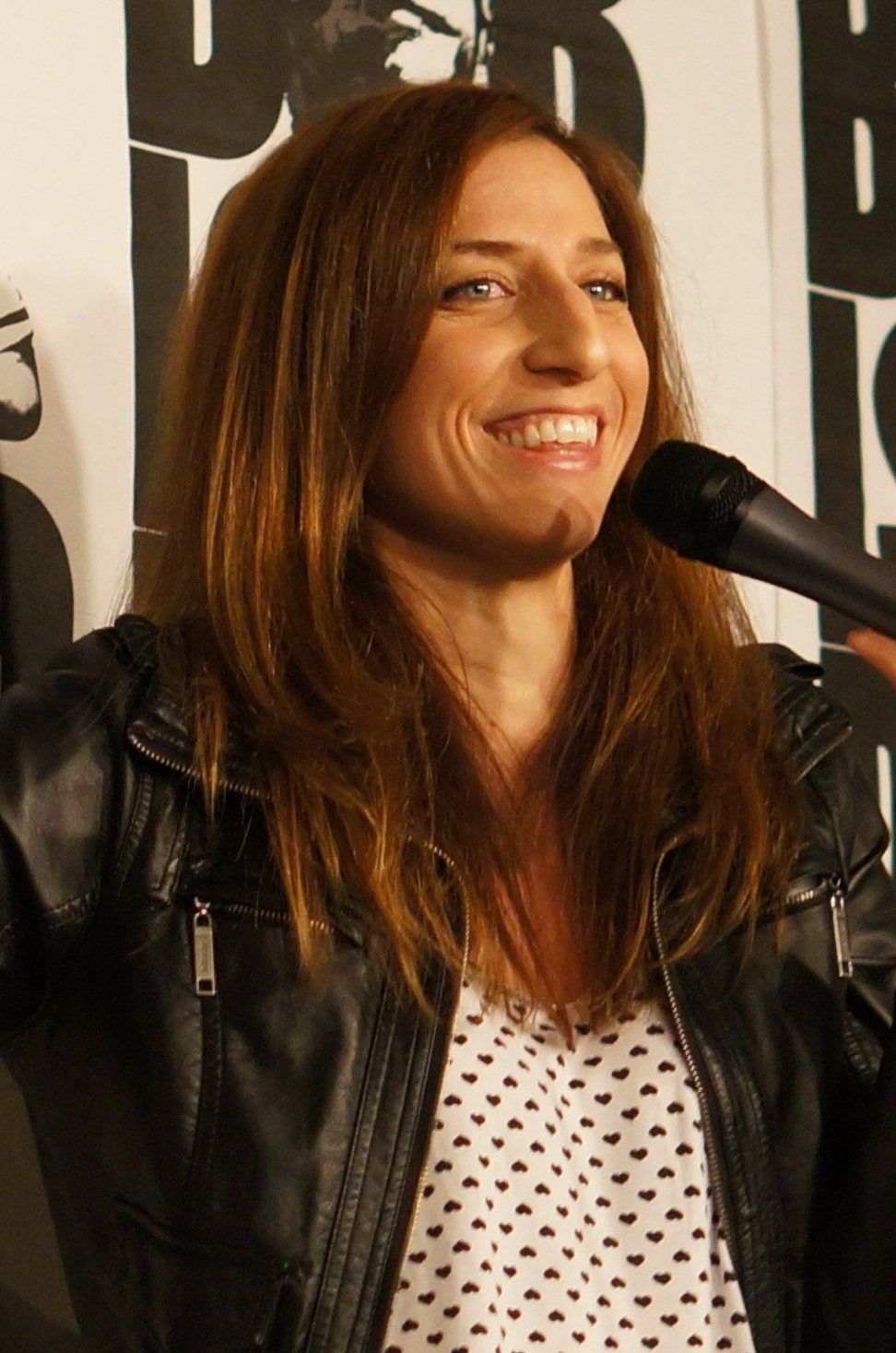 Chelsea Peretti performing at Meltdown Comics on 1.2.13. Photograph by Kevin Porter